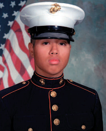 An official United States Marine Corps (USMC) photograph of Jesse Aliganga (1976-1998).